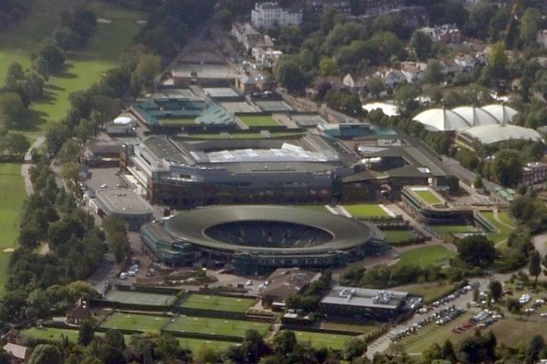 Aerial view of the All England Lawn Tennis and Croquet Club, the venue for the Wimbledon Championships, from the north in August 2015.